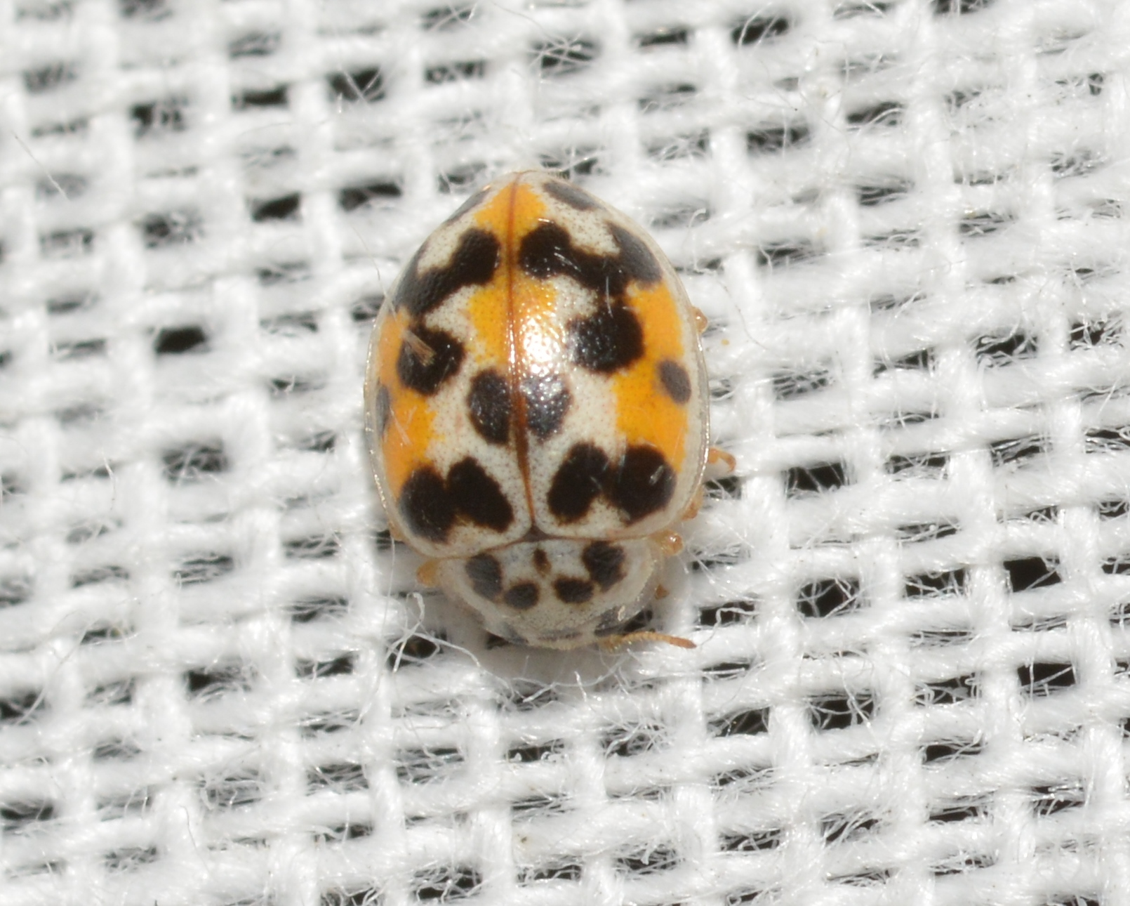 Mothing in the backyard St. Louis Missouri